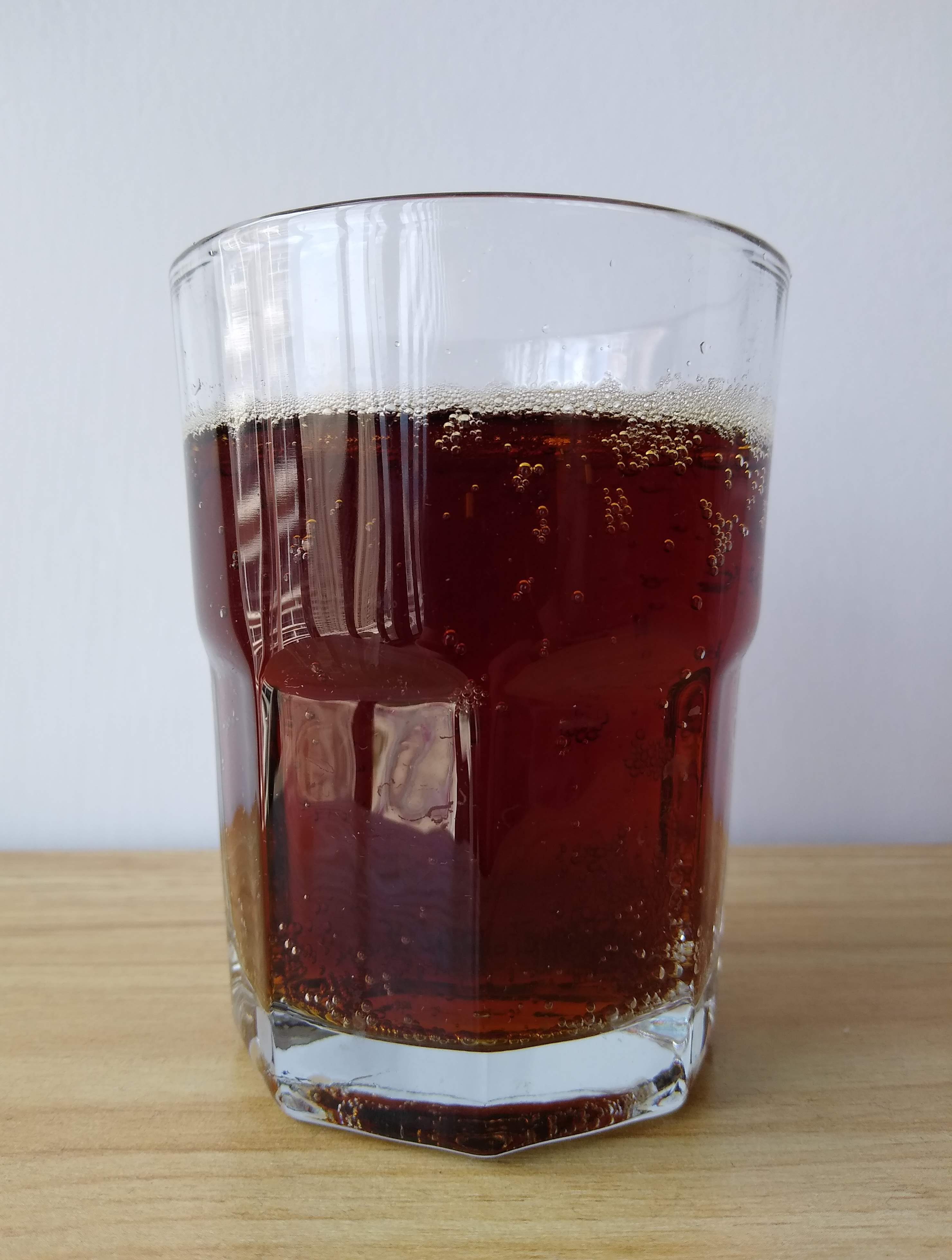 A glass of Asia Sarsae (亚洲沙示) sold in China. See also File:Bottle of Asia Sarsae.jpg.